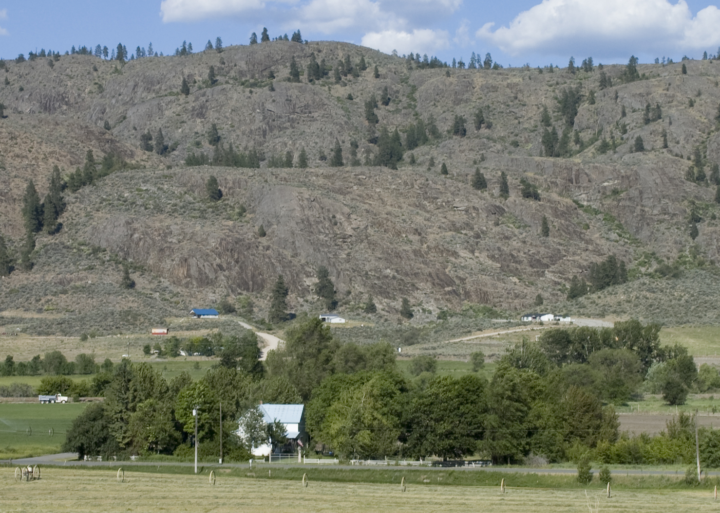 A photograph of a farmhouse outside Riverside, WA. This is along the Okanogan River and was taken from US 97. The Okanogan River, out of sight, lies between the farmhouse and the hills.